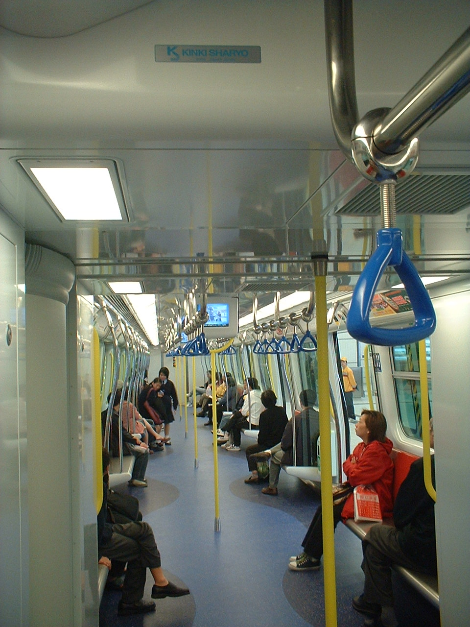 Interior of the rolling stock of Ma On Shan Rail, built by Kinki Sharyo. The manfacturer's decal is visible at the top of every connecting carraige.